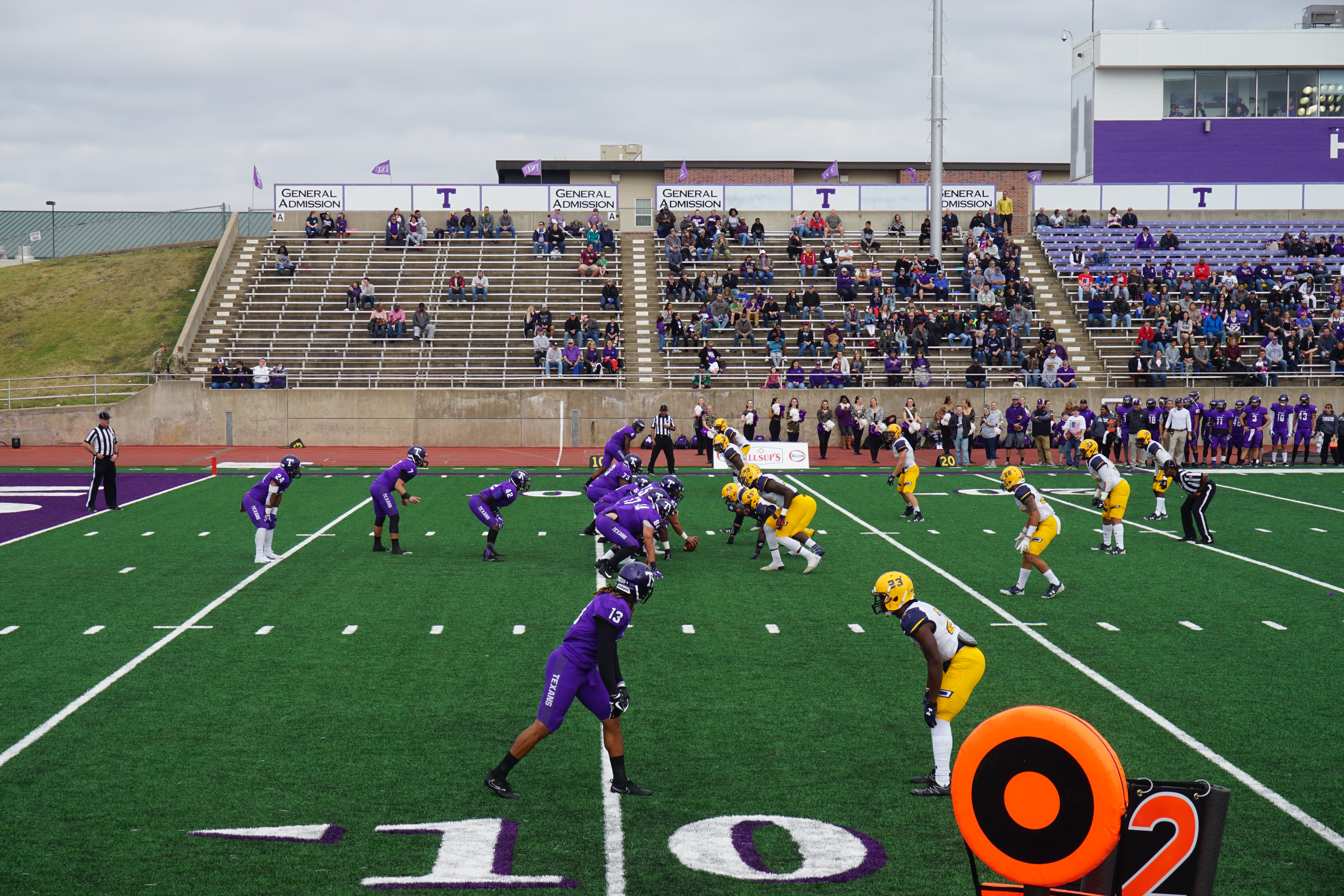 Tarleton State on offense during the Texas A&M–Commerce Lions vs. Tarleton State Texans football game at Memorial Stadium in Stephenville, Texas (United States). A&M–Commerce won 33–21.